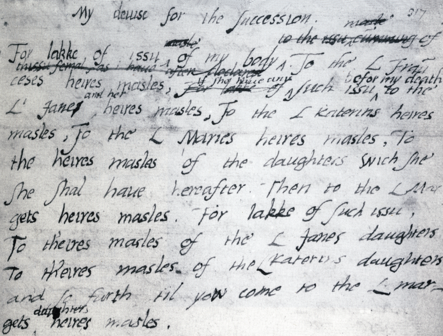 Edward VI's "devise for the succession", 1553, written in his own hand. (Inner Temple, Petyt MS 538, vol. 47 fo. 317.) In this document, Edward bypassed the claims to the throne of his half-sisters Mary and Elizabeth in favour of Lady Jane Dudley (née Grey). In the fourth line, Edward has changed "L Janes heires masles" to "L Jane and her heires masles". The document, in the form of a rough draft of a will, cannot be precisely dated, but is thought to be c. January 1553, revised in May or early June 1553. The original draft provided for the king's own marriage and heirs, which suggests that it was drawn up before Edward realised he was terminally ill.